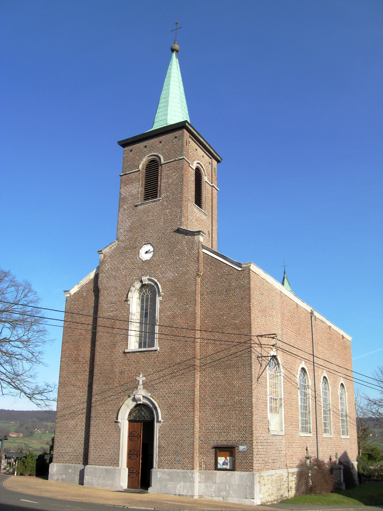 Church of Saint Lambert in Sippenaeken, Plombières, Liège, Belgium